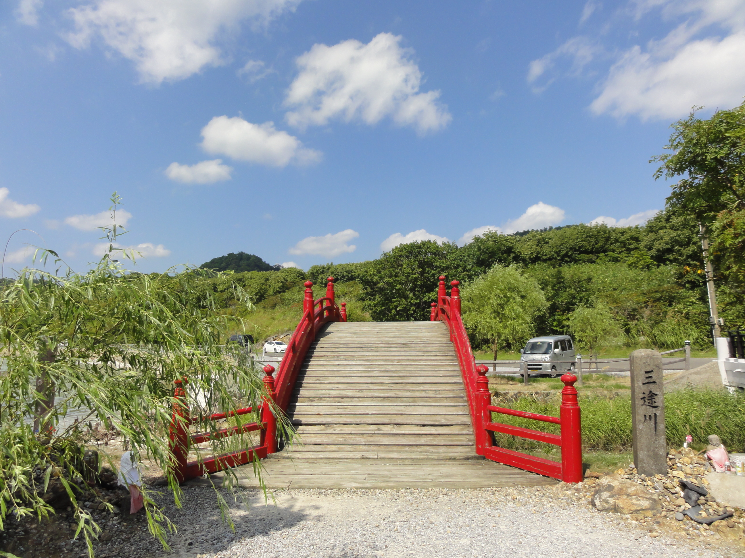 Taikobashi ("Taiko Bridge") over the Sanzu River, on the trail to Osorezan